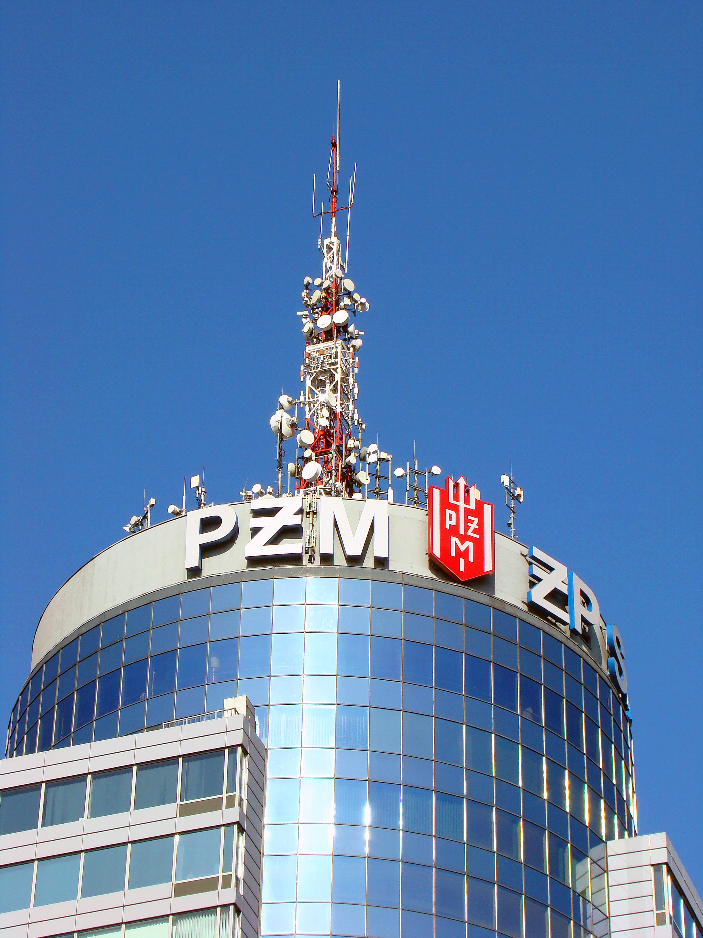 PAZIM skyscraper, Szczecin, Poland